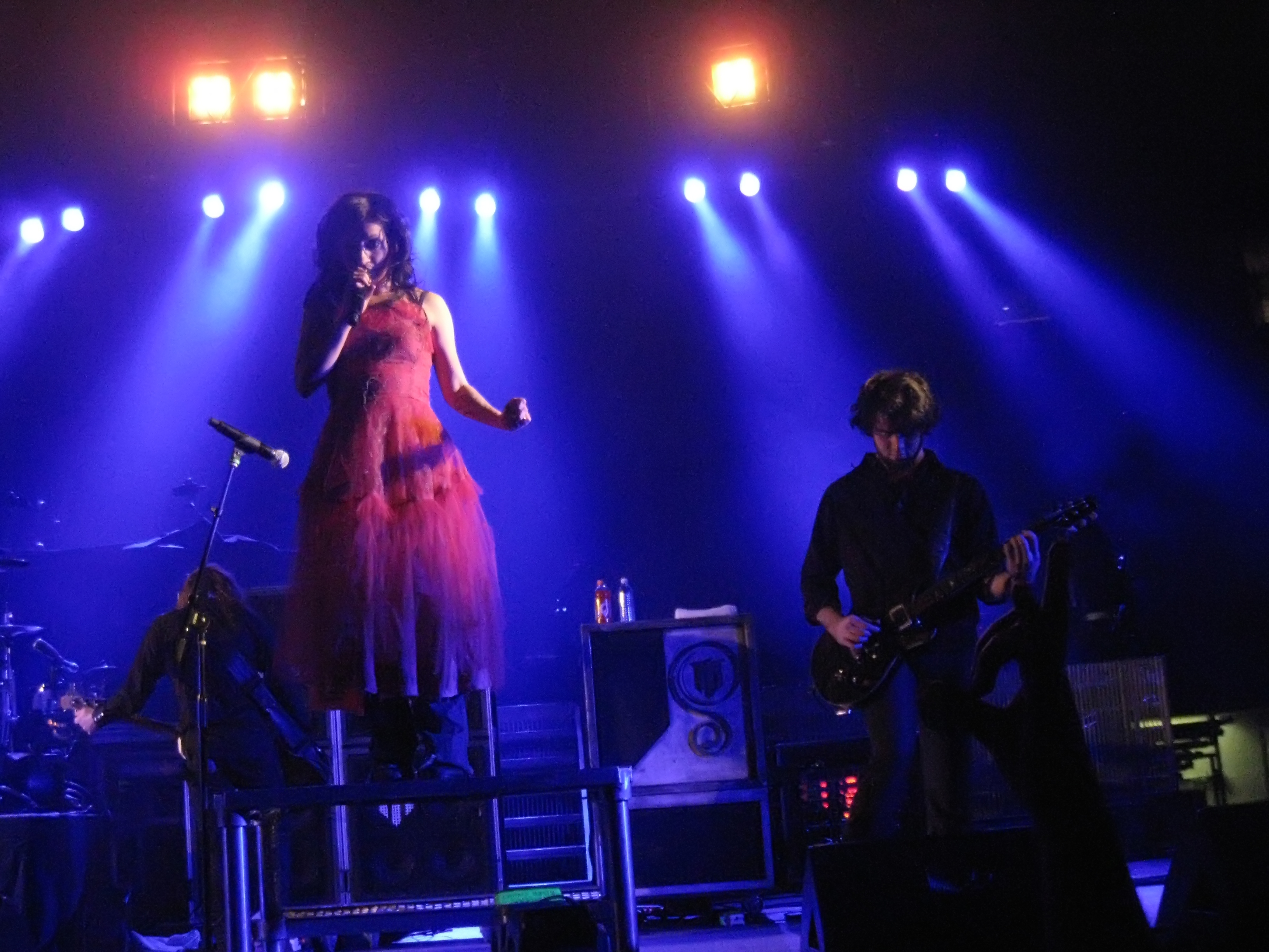 Flyleaf at a concert in Millbrook